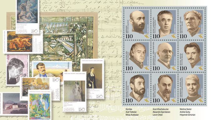 Stamp of Armenia